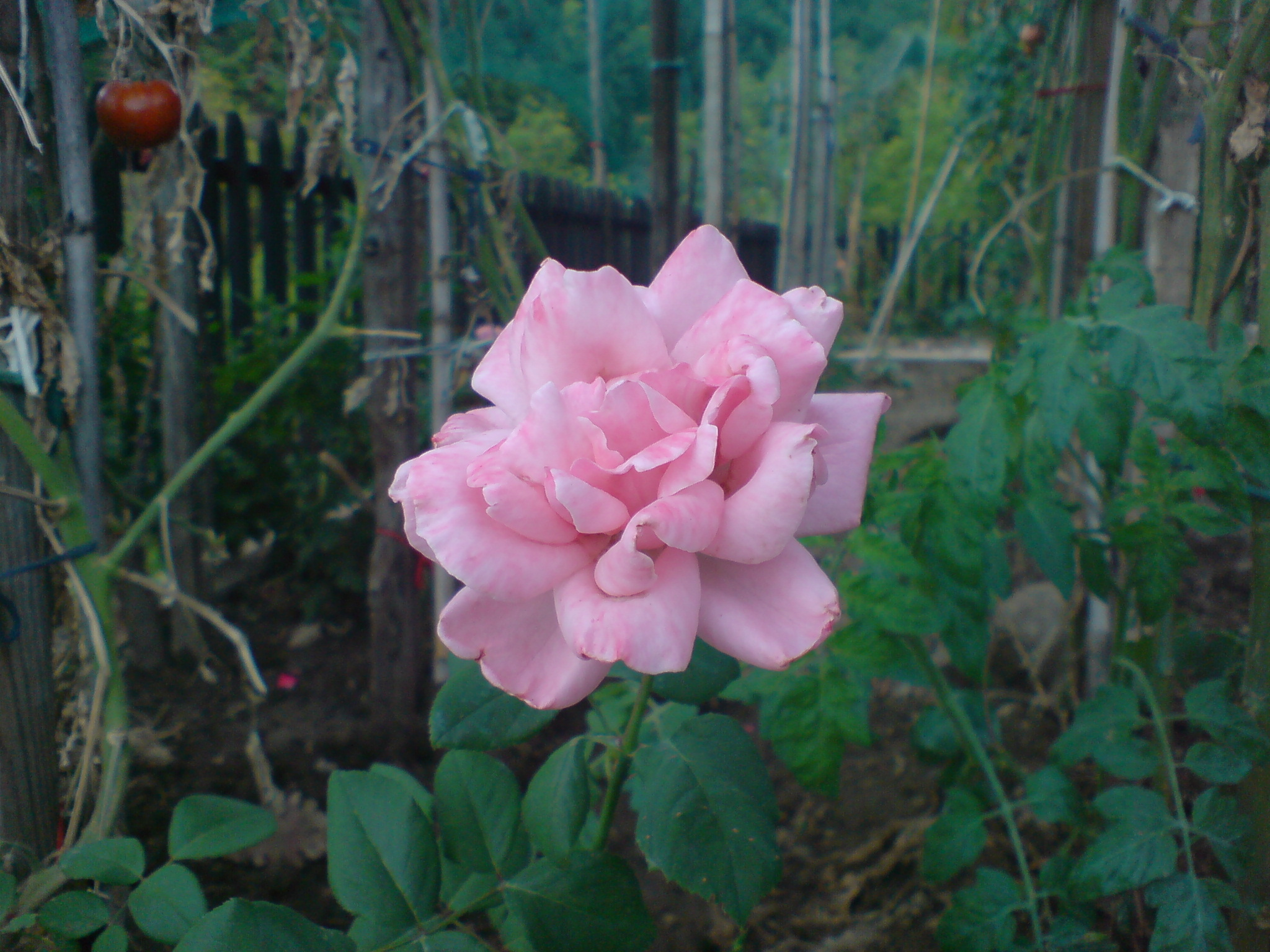 Pink rose